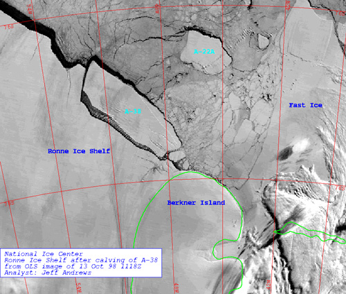 Iceberg A-38 after it detached from the Ronne Ice Shelf.